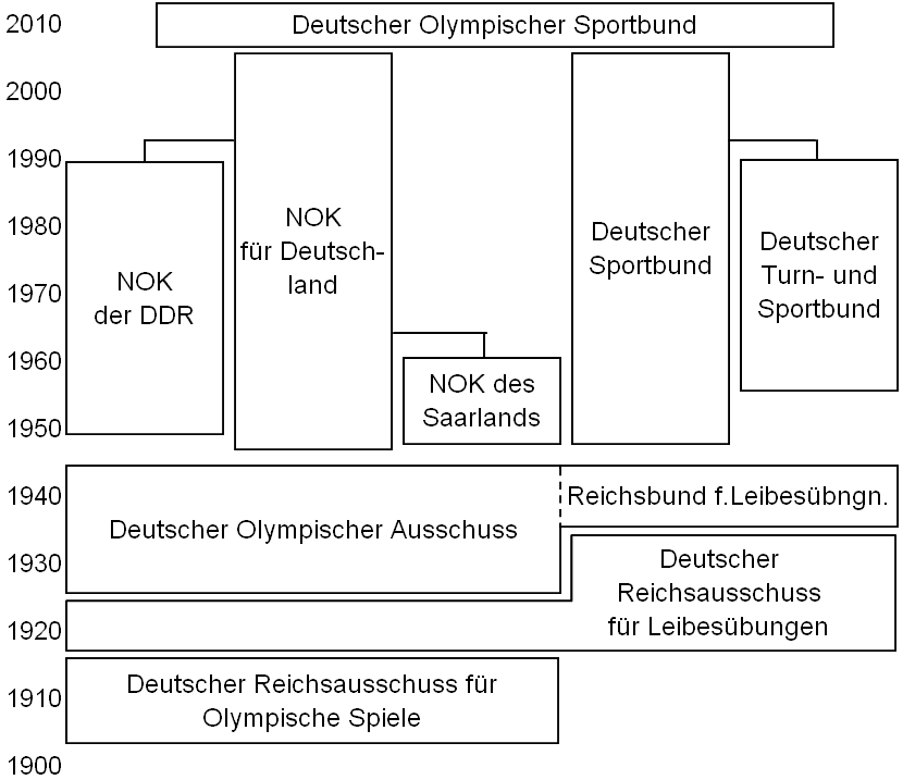 Structure and historic evolution of German Olympic and Sports Associations